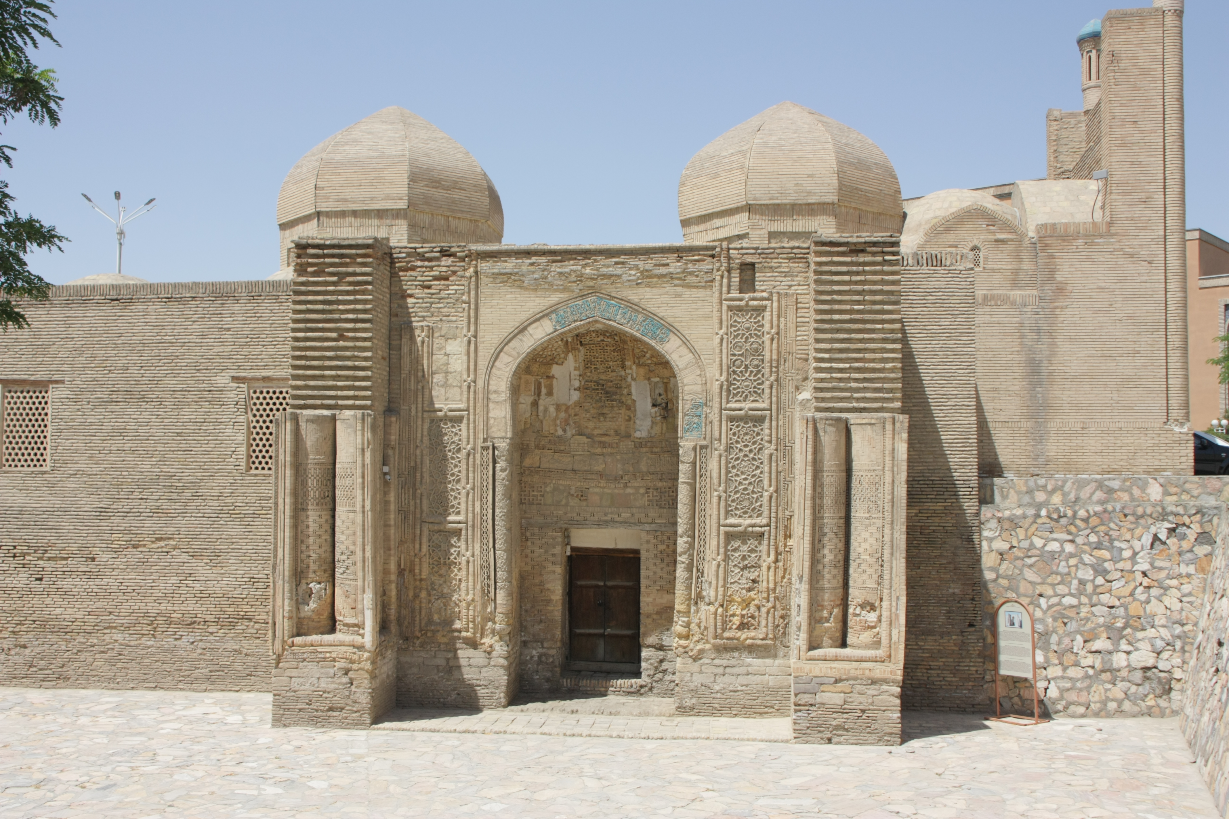 Magok-i-Attari mosque